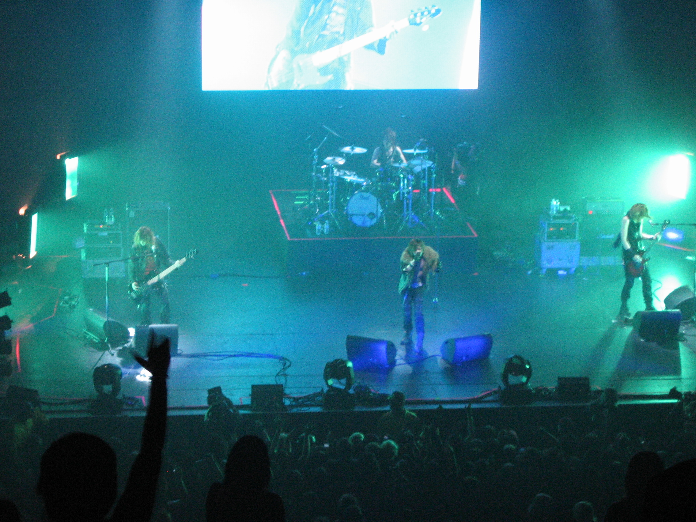 D'espairsRay at J-Rock Revolution 2007